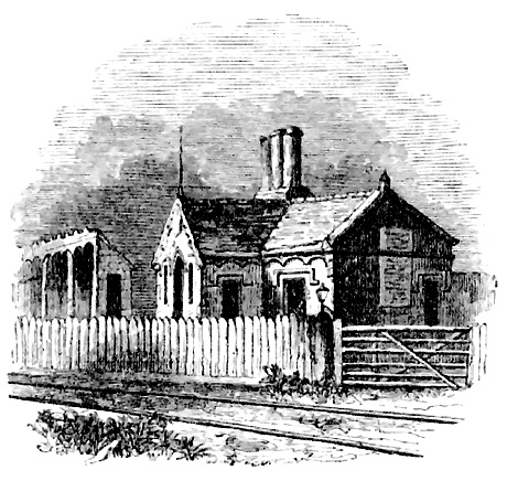 Beeston's First Railway Station - 1840 . The first station at Beeston was built by the Midland Counties Railway Company to serve its newly constructed line between Nottingham and Derby . Physical work on the railway was in progress as early as September 1837 and the completed line was officially opened on Thursday , May 29th May , 1839 . In length the line was 19 miles , 3 chains and 17 yards - which being more familiarly put is nineteen miles and eighty-three yards .) A very authoritative account of the The Midland Counties Railway is contained in a 1989 book titled The Midland Counties Railway by the Derby Railway History Research Group : ISBN 0 901461 11 3 . Persons more interested in a photographic record might wish to study the informative compilation by Mark Higginson of the Midland Railway Trust titled The Midland Counties Railway : 1839 - 1989 : A Pictorial Survey ISBN 1 872194 00 1 . The above picture is from The Midland Counties Railway Companion of 1840 - a book that is now in the public domain and on-line on Google.